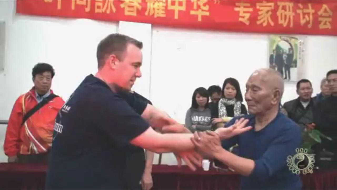 Sifu Sean Mann playing Chi Sau with Grand Master Ip Chun, son of Ip Man